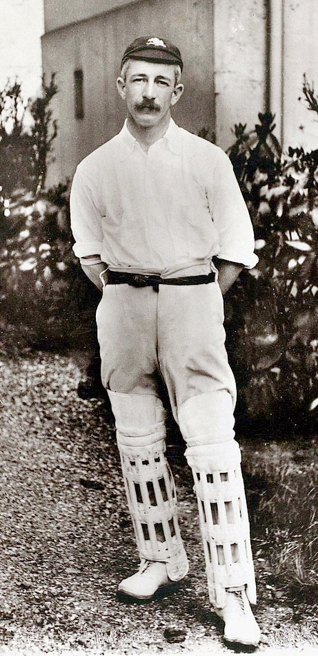 Sport, Cricket, Postcard, Circa 1909, Hanson Carter, New South Wales, (1897-1925) and Australia.